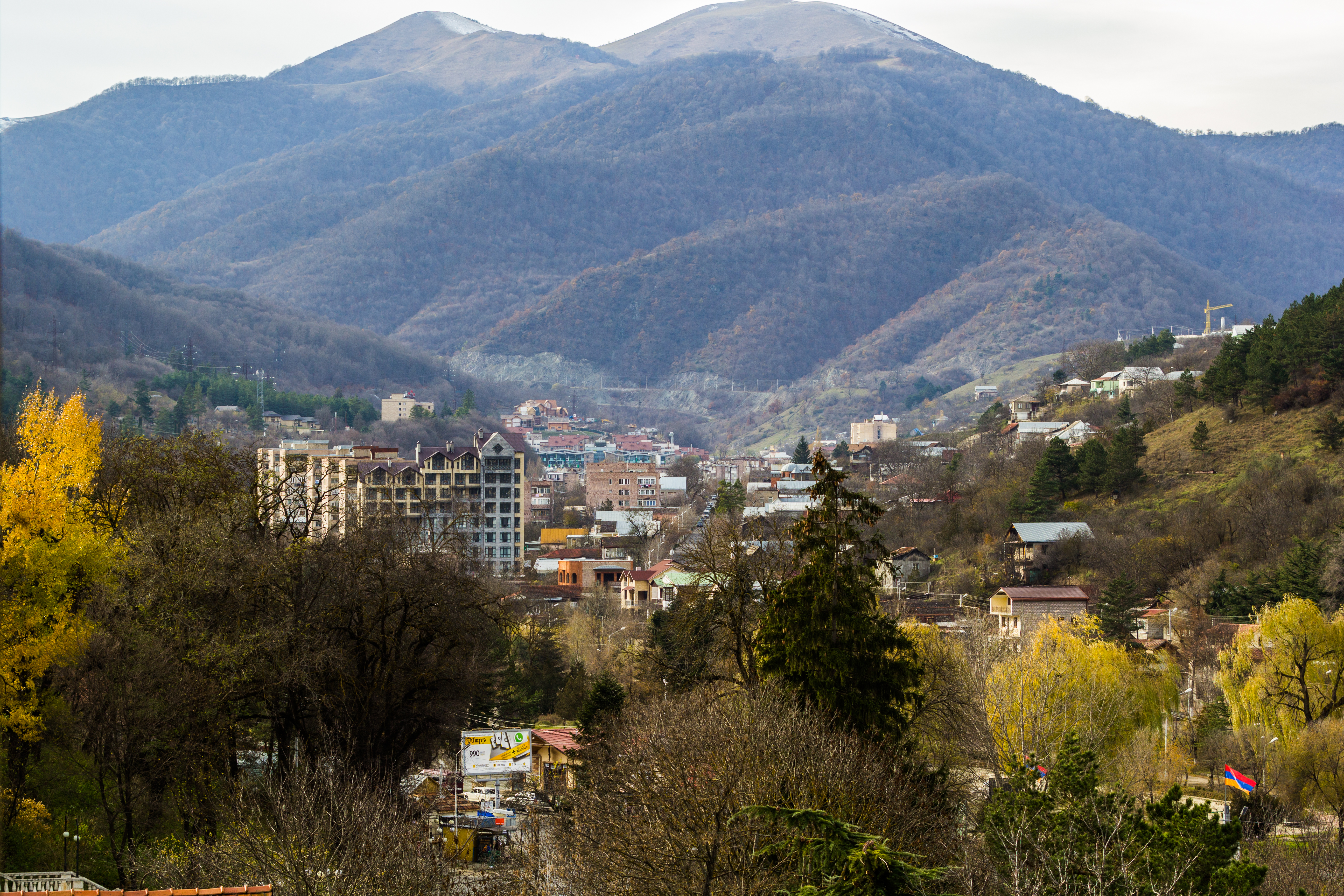 A view of downtown Dilijan in Armenia.